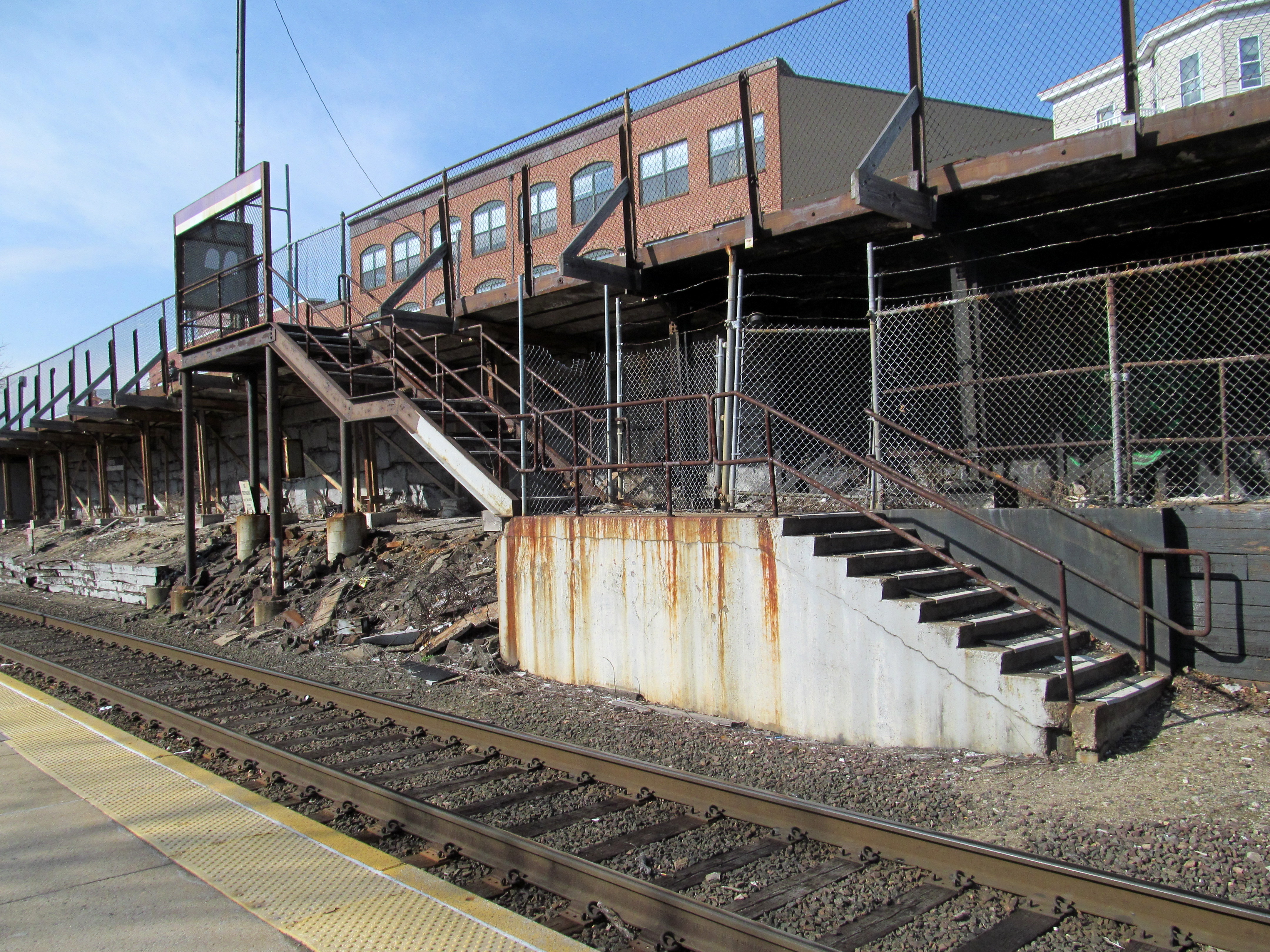 Stairs at Porter station, used from 1978 to 1984 while the modern station was under construction, in April 2013